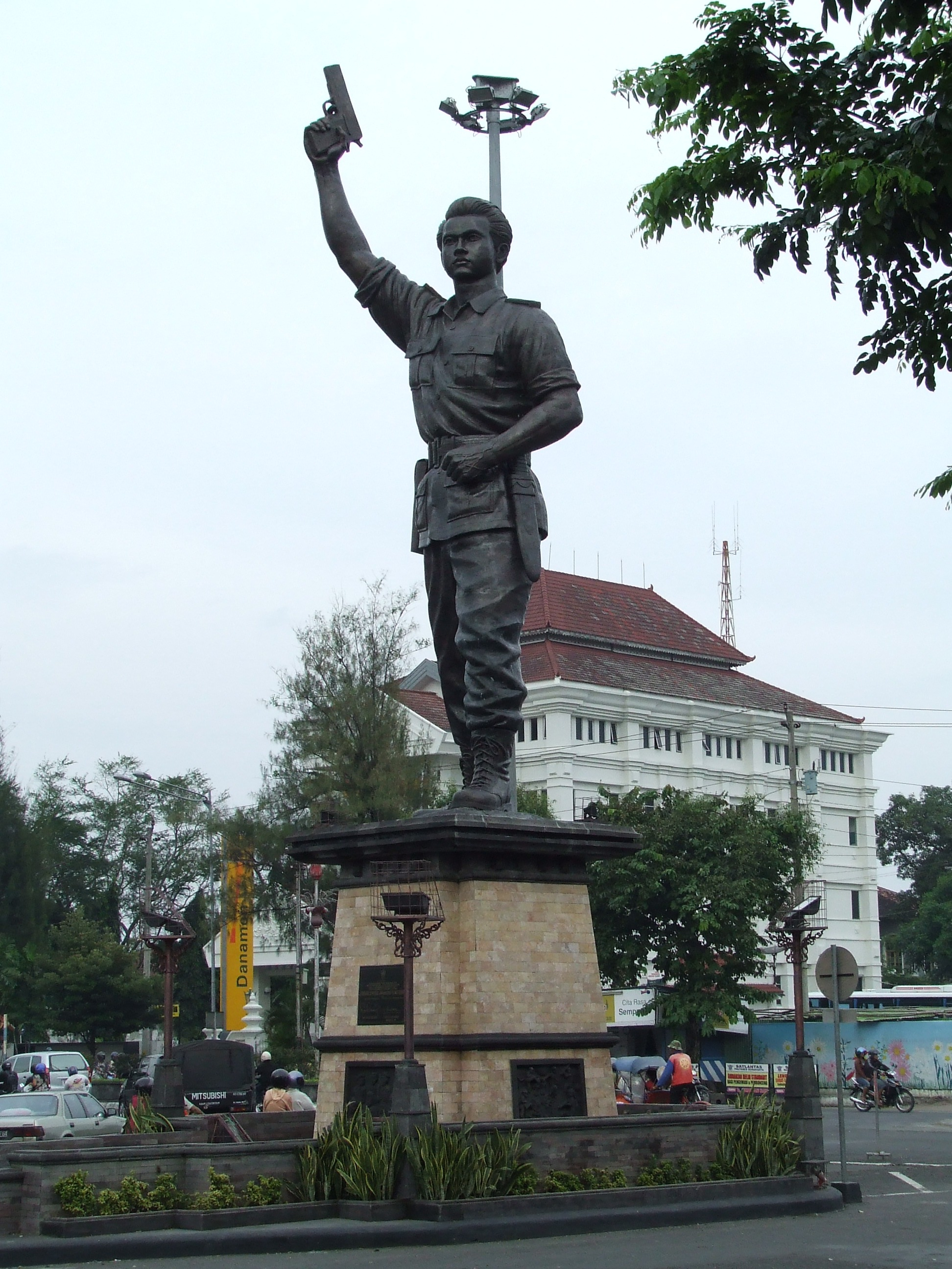 Statue of Slamet Rijadi in Surakarta (Solo), Java, Indonesia.